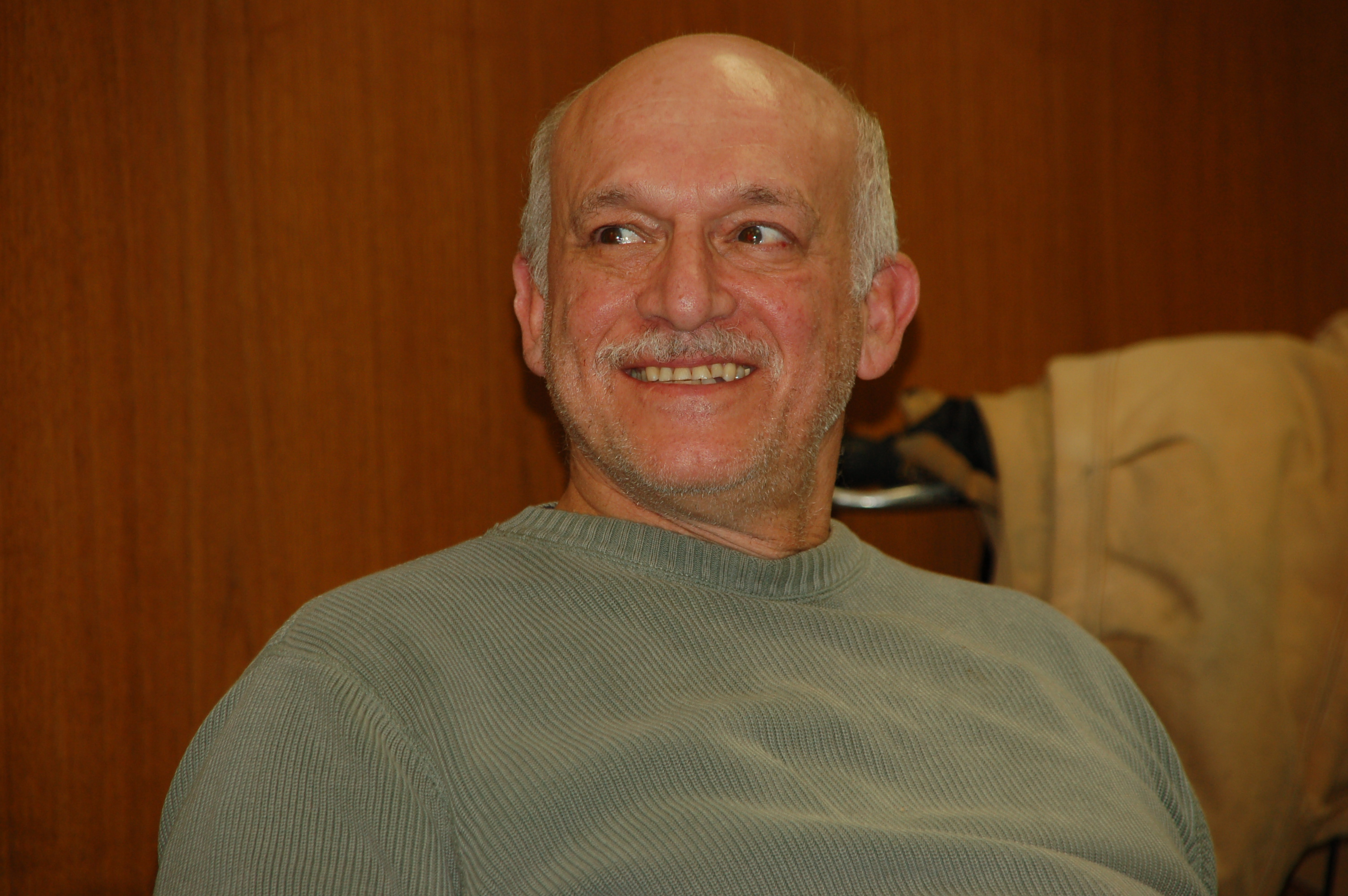 Former Students for a Democratic Society (SDS) and Revolutionary Youth Movement (RYM) II member Mike Klonsky speaking at a Movement for a Democratic Society (MDS) conference in Chicago in 2007.